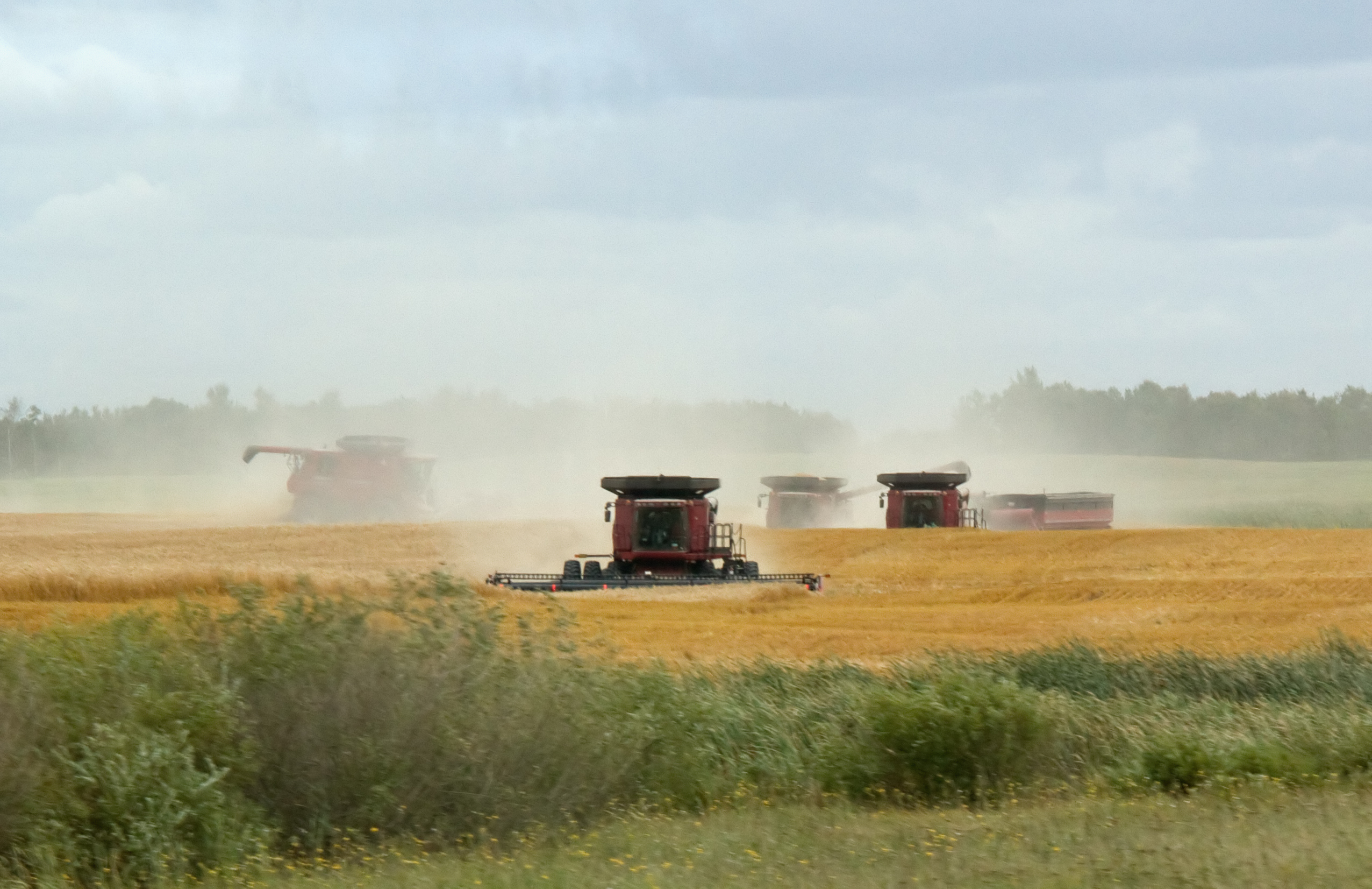 On the Train from Toronto to Edmonton